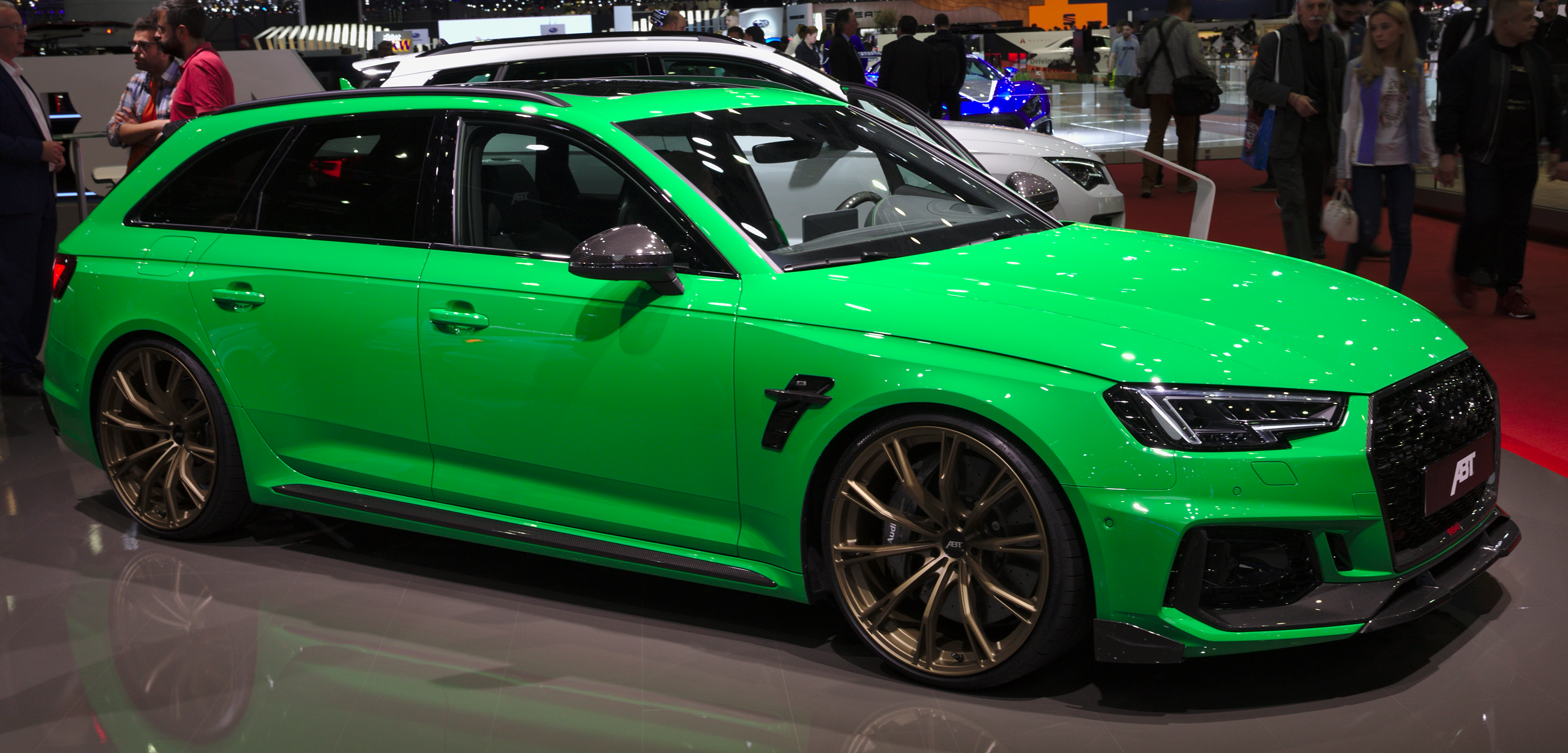 Abt RS4-R Avant at Geneva Motor Show 2019